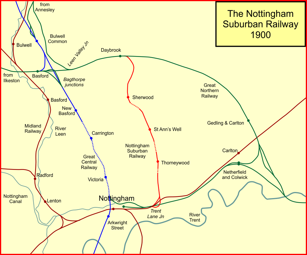 System map of the Nottingham Suburban Railway, England, in 1900